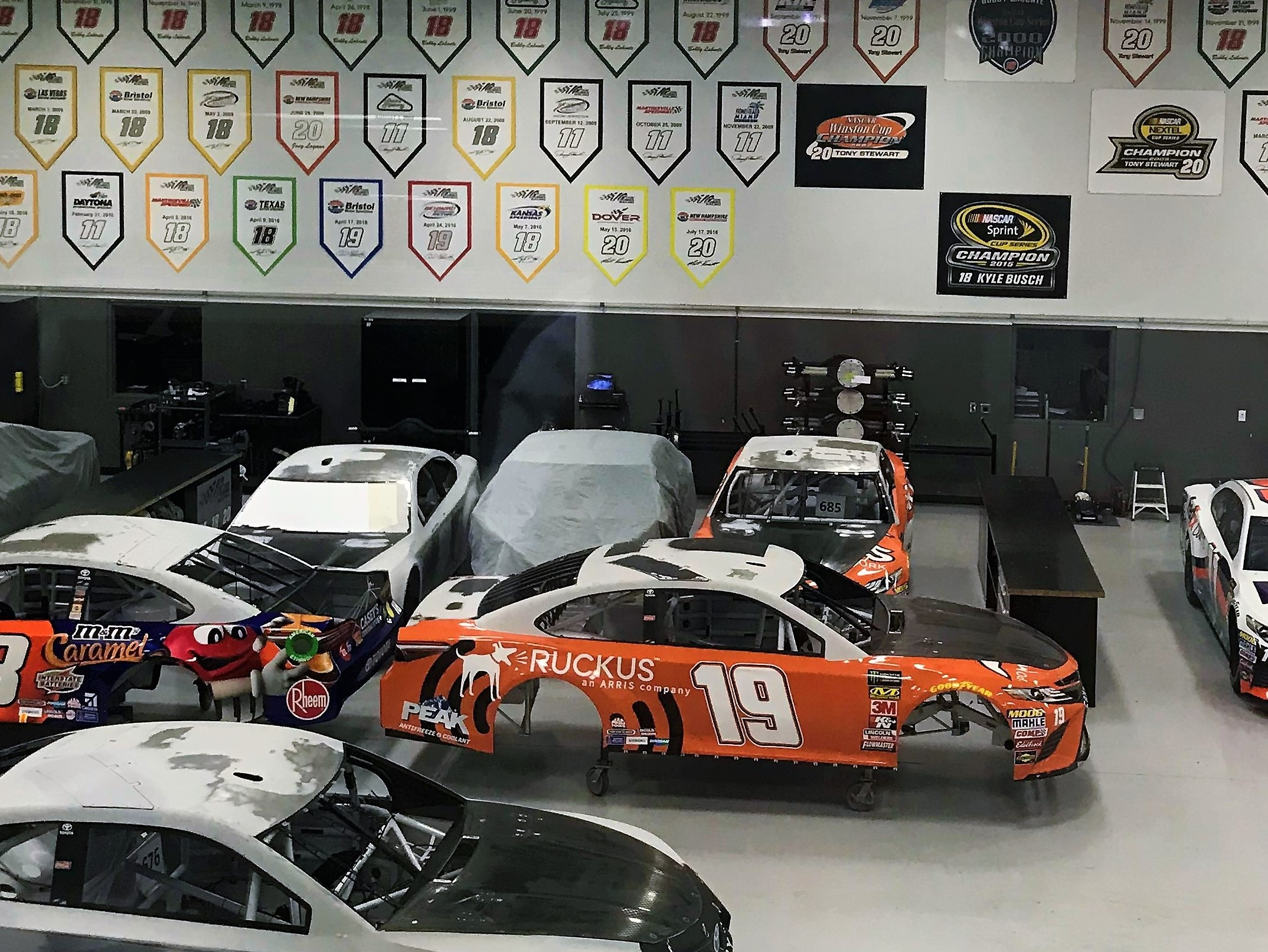 The shop at Joe Gibbs Racing where Daniel Suárez's race cars are built